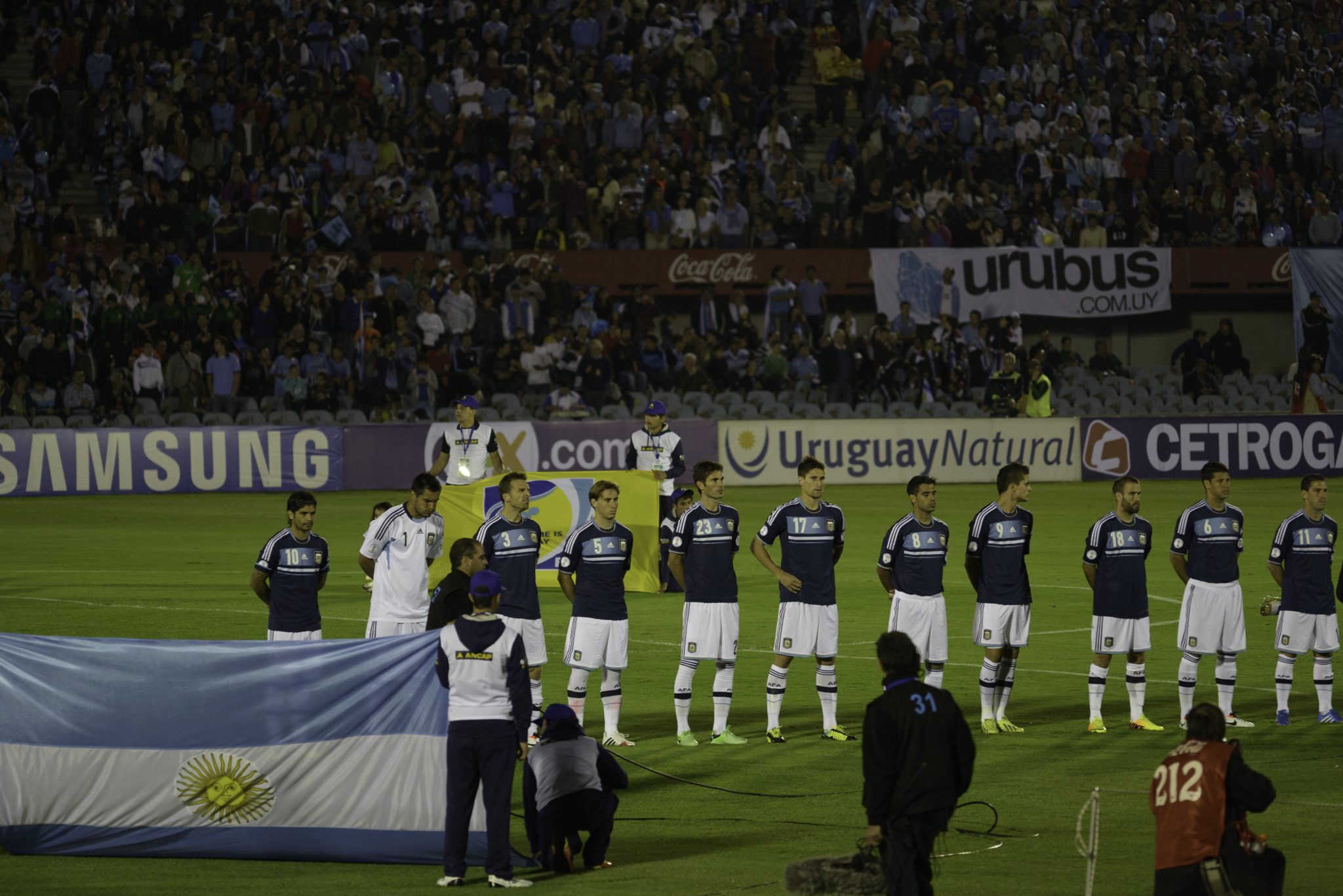 L-R: Ever Banega, Sergio Romero, Hugo Campagnaro, Lucas Biglia, Jose Maria Basanta, Federico Fernandez, Augusto Fernandez, Erik Lamela, Rodrigo Palacio, Sebastian Dominguez, Maxi Rodriguez